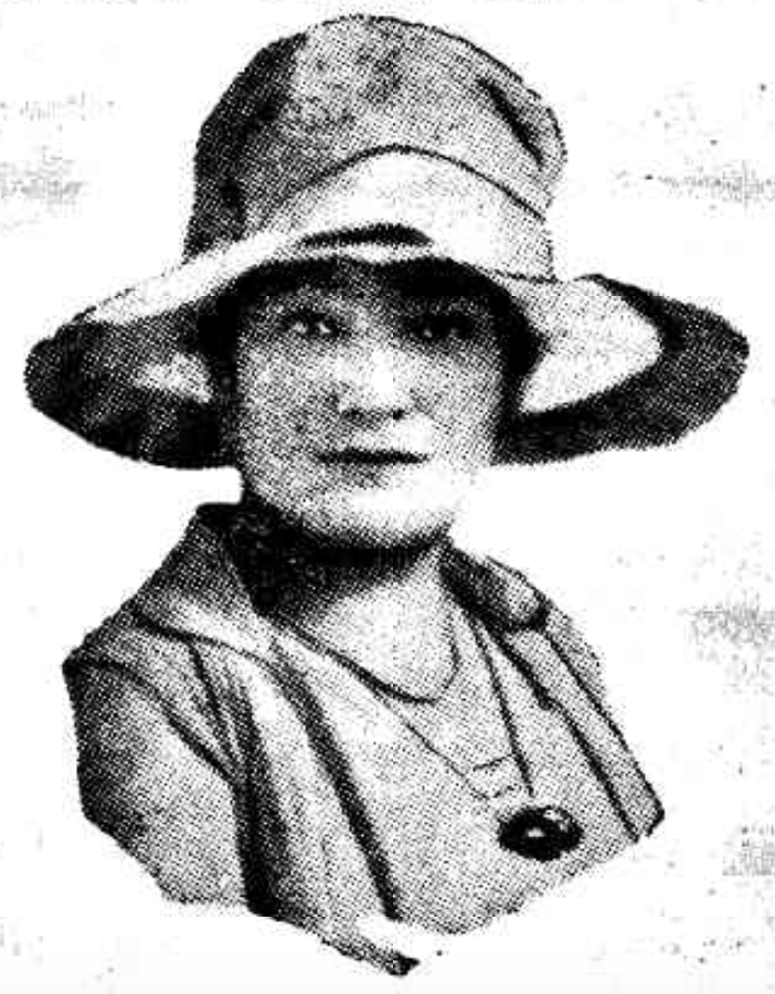 Mabel Forrest (1872-1935) Australian poet, writer and journalist